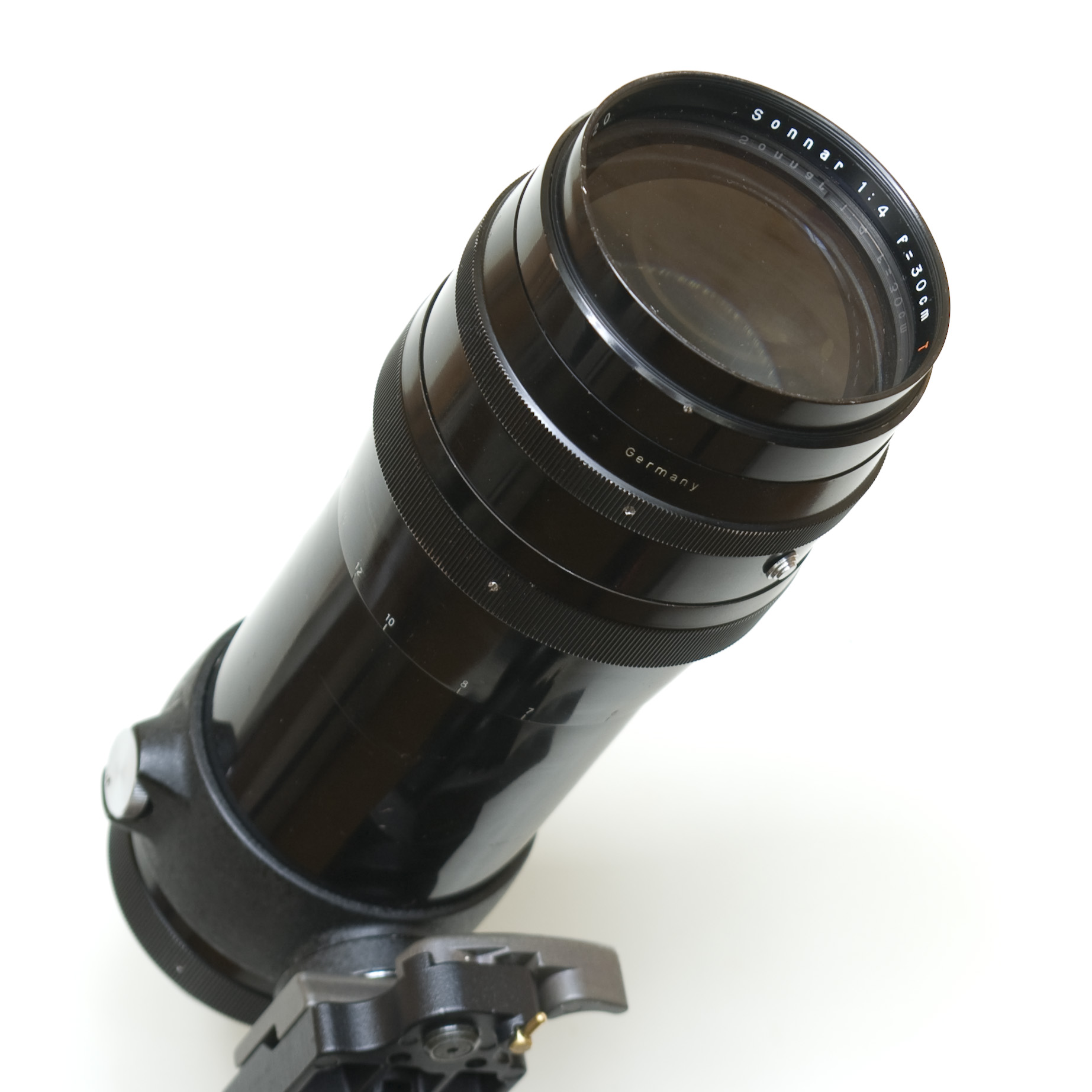 Carl Zeiss Sonnar T 300/4 lens.